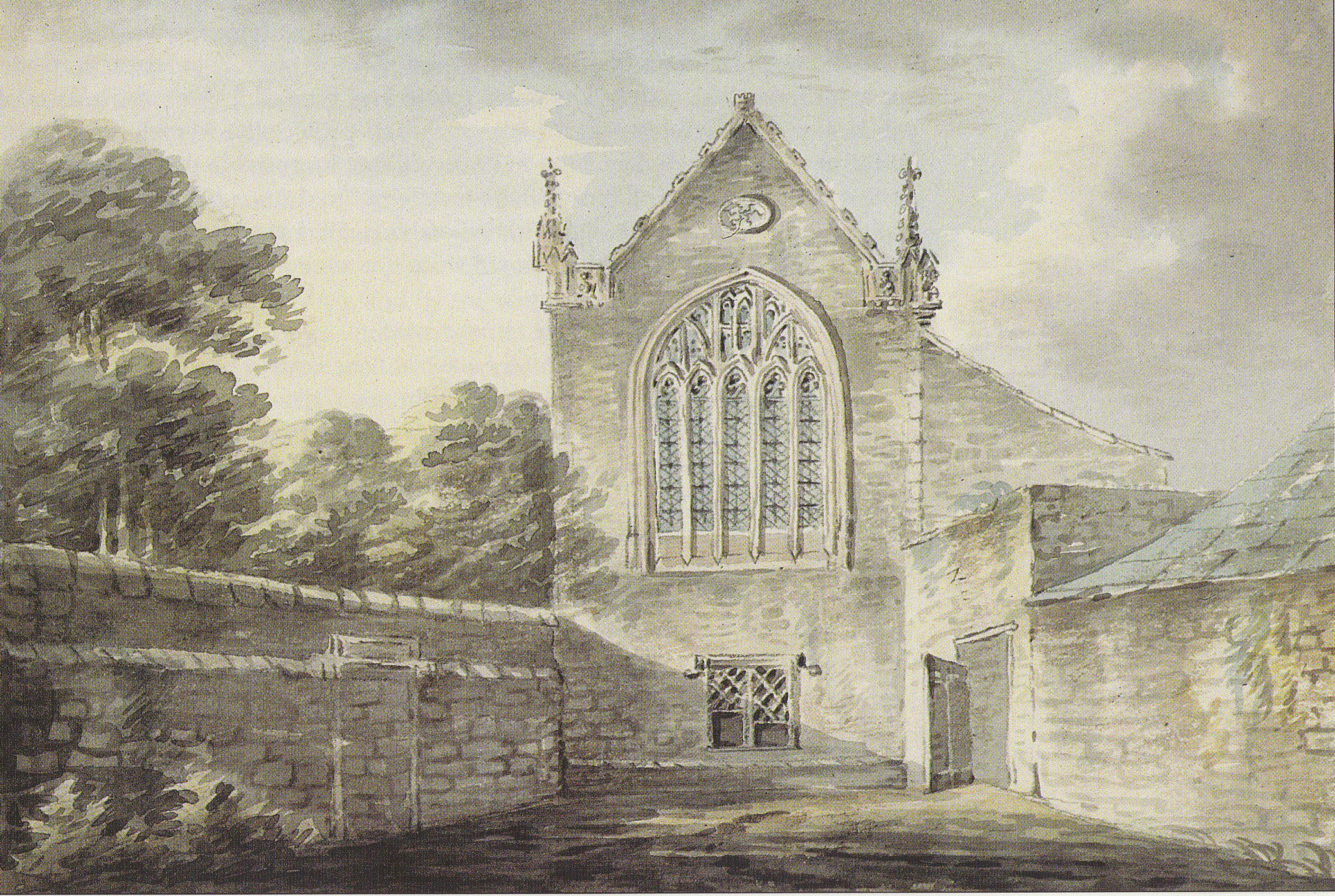 Nutwell Chapel, Woodbury, Devon. Watercolour by Rev. John Swete (d.1821) made before this 14th century chapel was incorporated into the present neo-classical Nutwell Court.